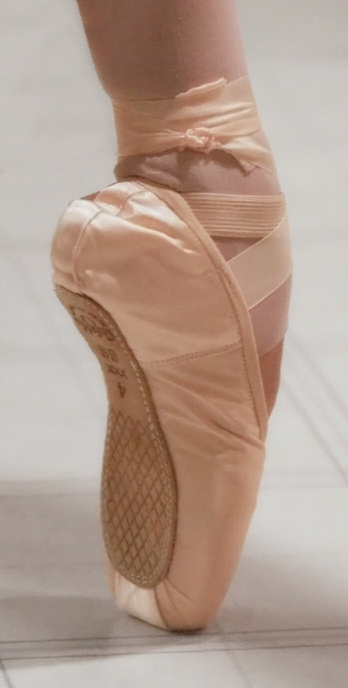 A pointe shoe, secured to a ballet dancer's foot (modeled by Daria L). The dancer is en pointe, meaning that all body weight is supported on the tips of fully extended feet. This image is a derivative of another photo I previously uploaded (PointeShoes.jpg). In this image, a new pointe shoe is being modeled by Daria.